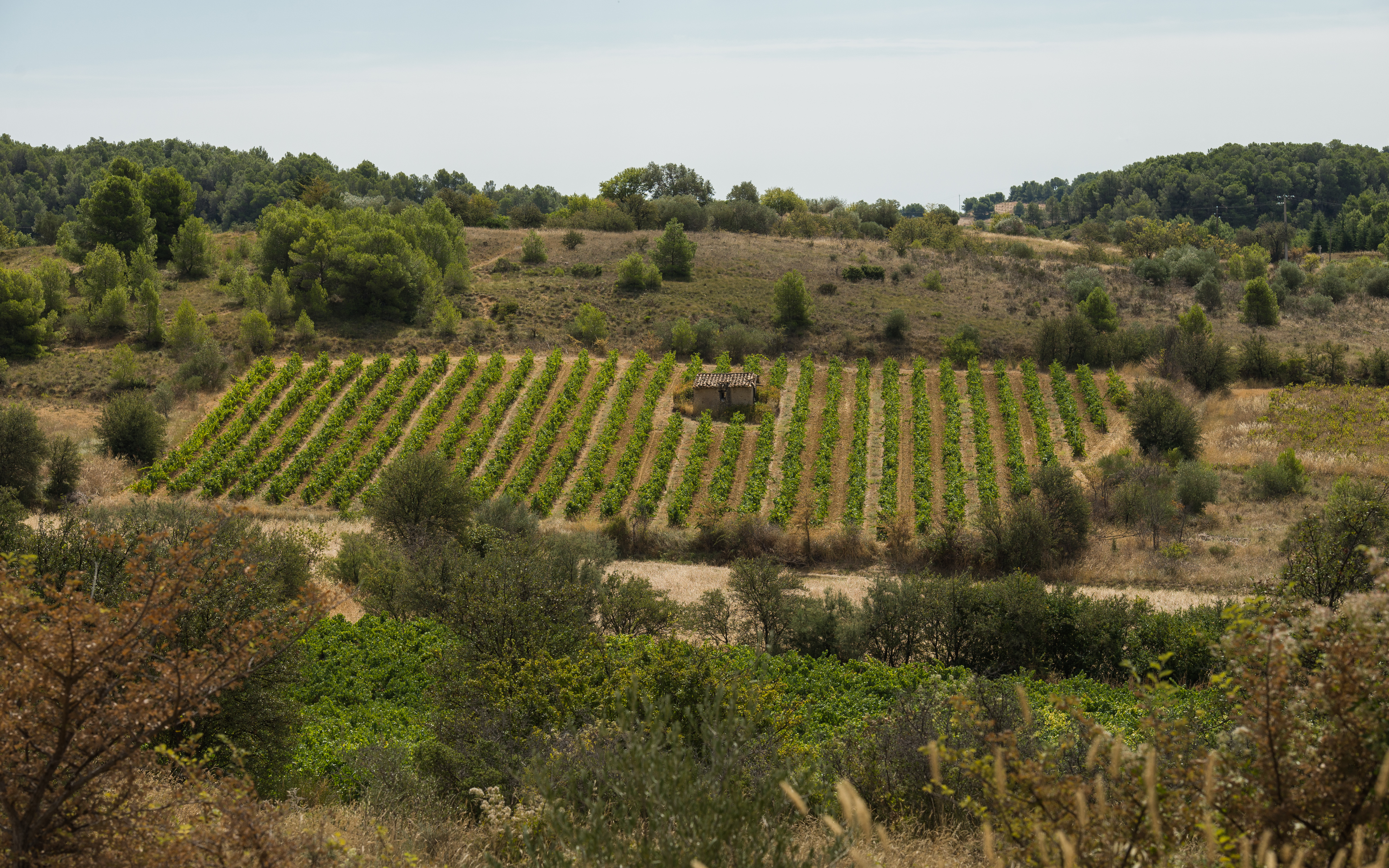 A mazet (occitan language name for a stoneworked construction) in a vineyard. Castelnau-de-Guers, Hérault, France.